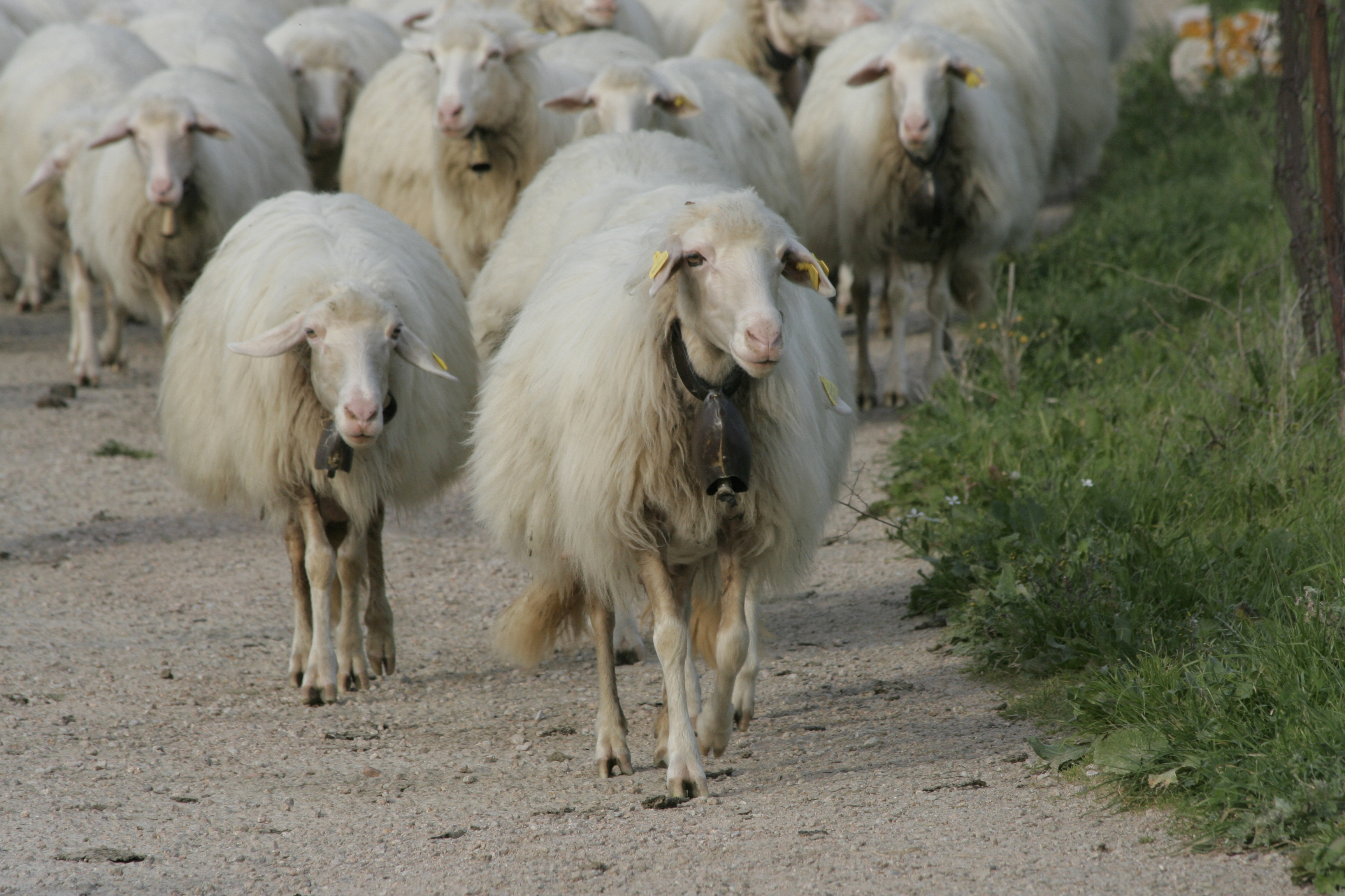 Herd of sardinian sheeps going to pasture